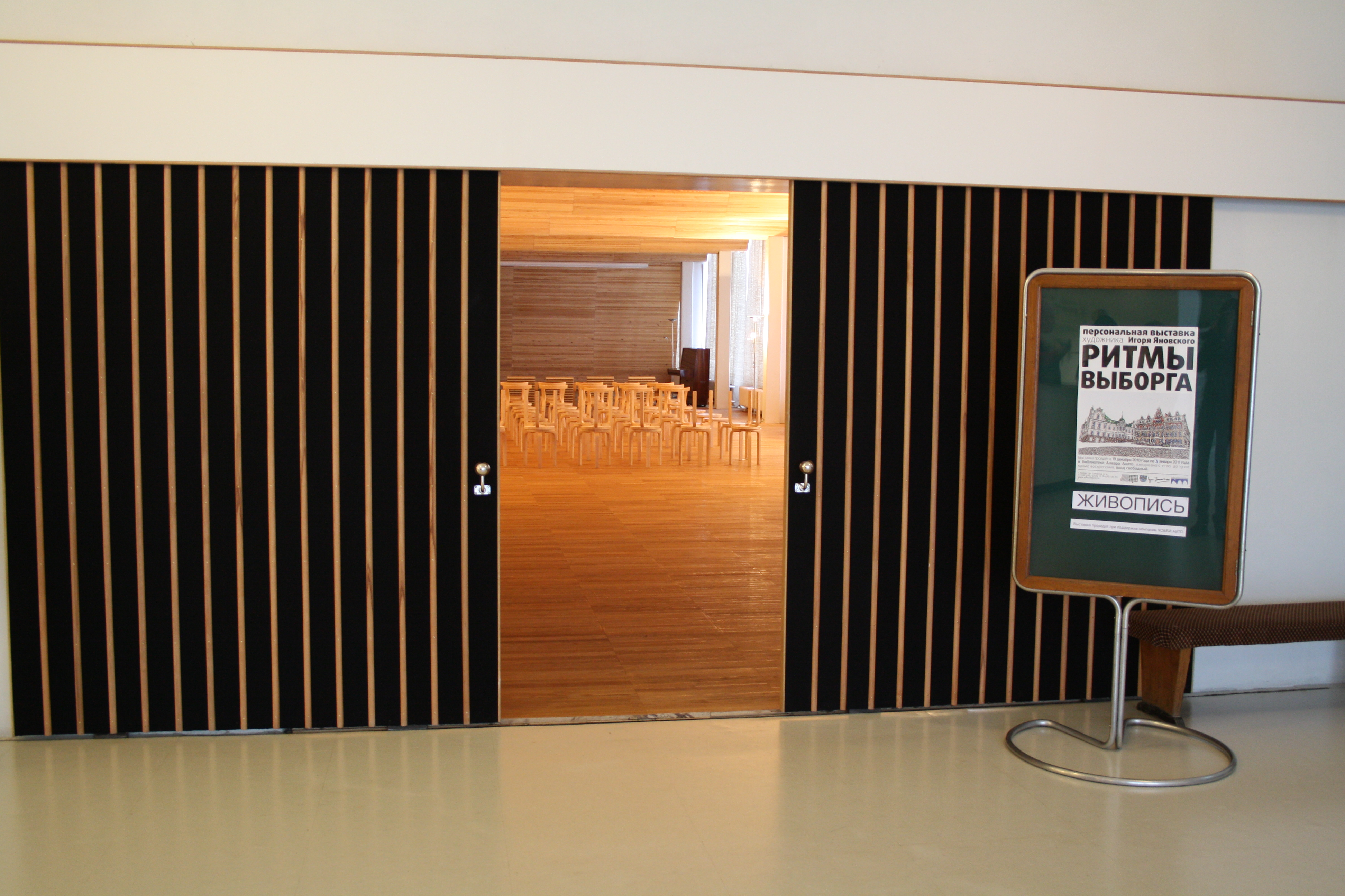 Interior of Vyborg Library, January 2011